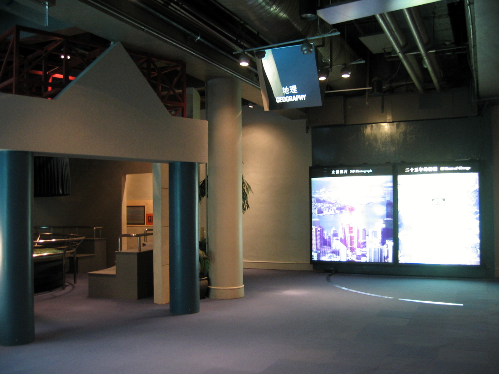 Hong Kong Science Museum Geography Zone